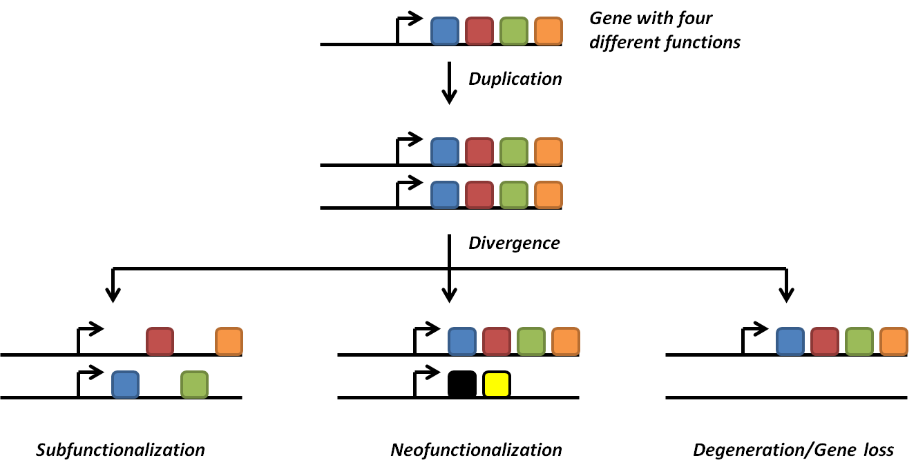 Explains the three evolutionary fates of duplicate genes